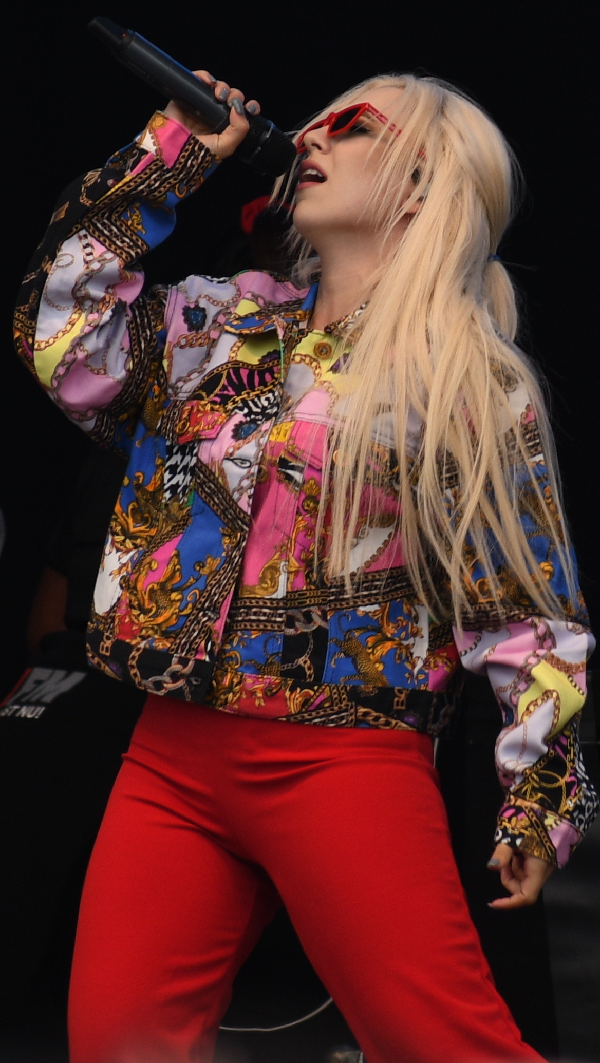 Ava Max at the Rix FM Festival in Gothenburg